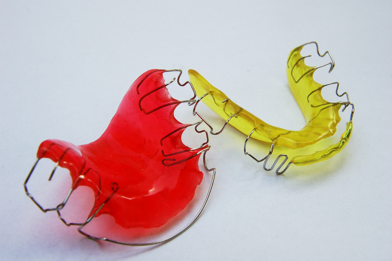 This is a picture of dental retainers, used after an orthodontic treatment.